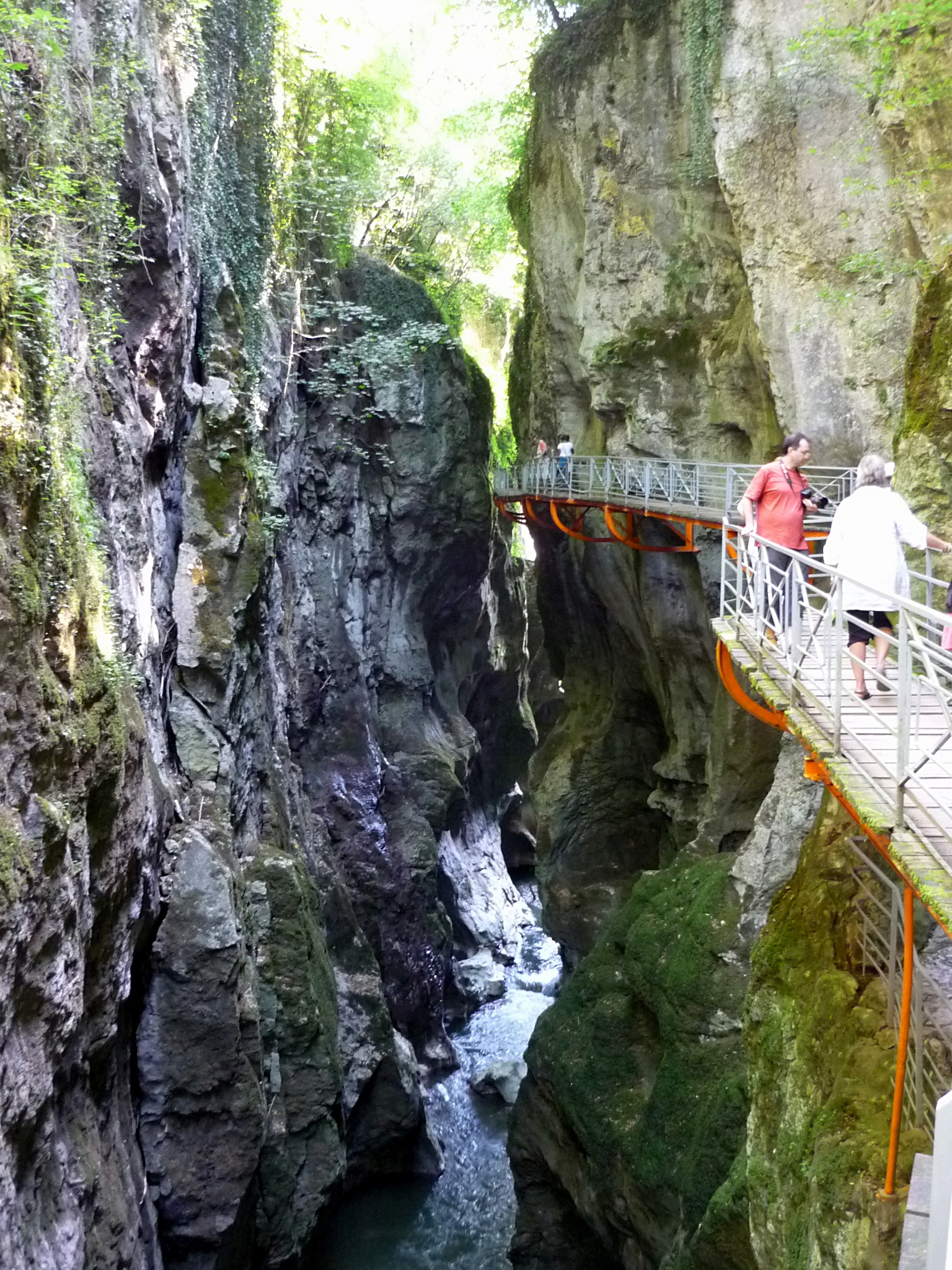 The bridges in the Fier Gorges, Montrottier, Haute-Savoie, France